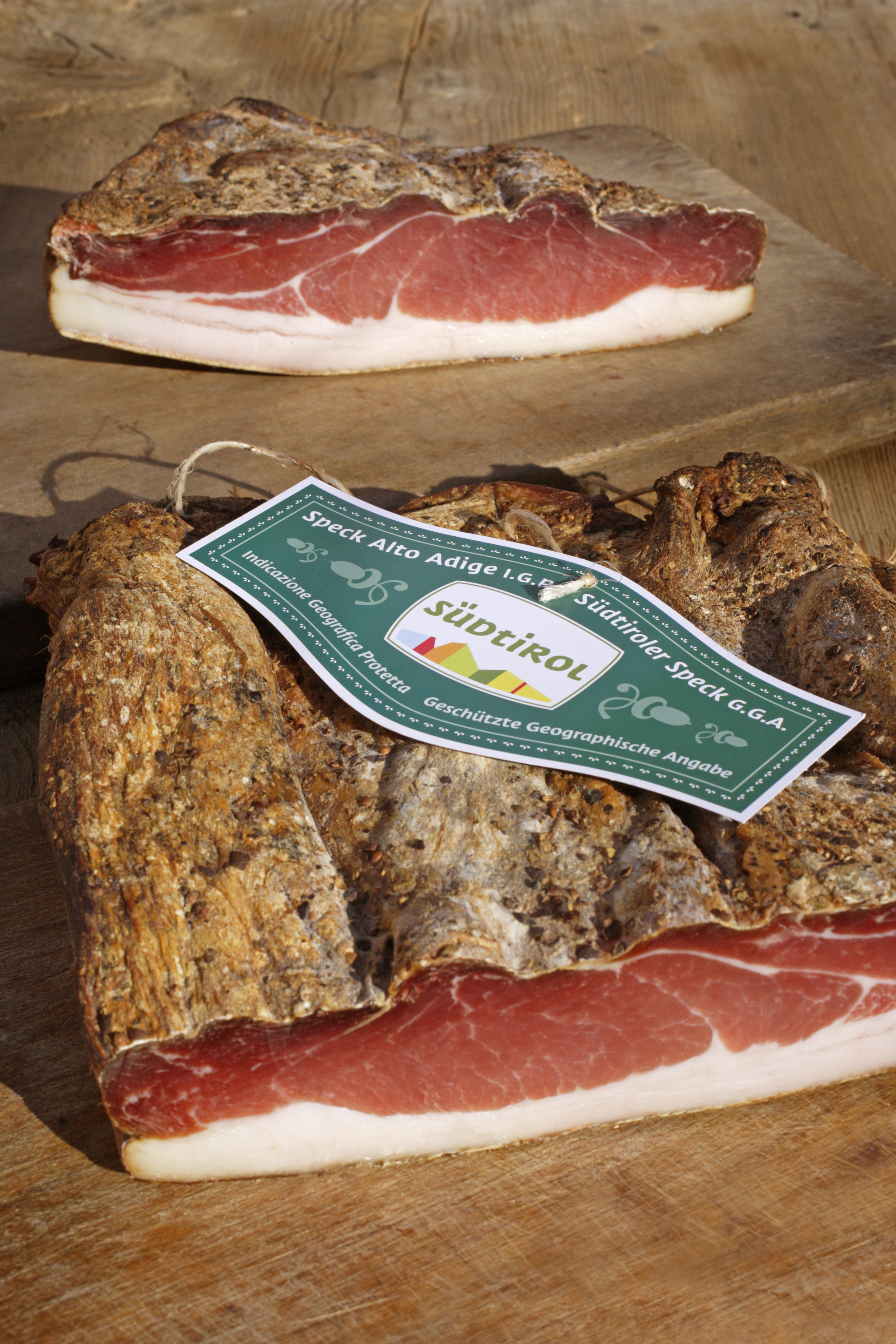 "Speck Alto Adige P.G.I." seal of approval: logo on a green label.